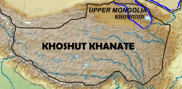 Location of the Khoshut Khanate